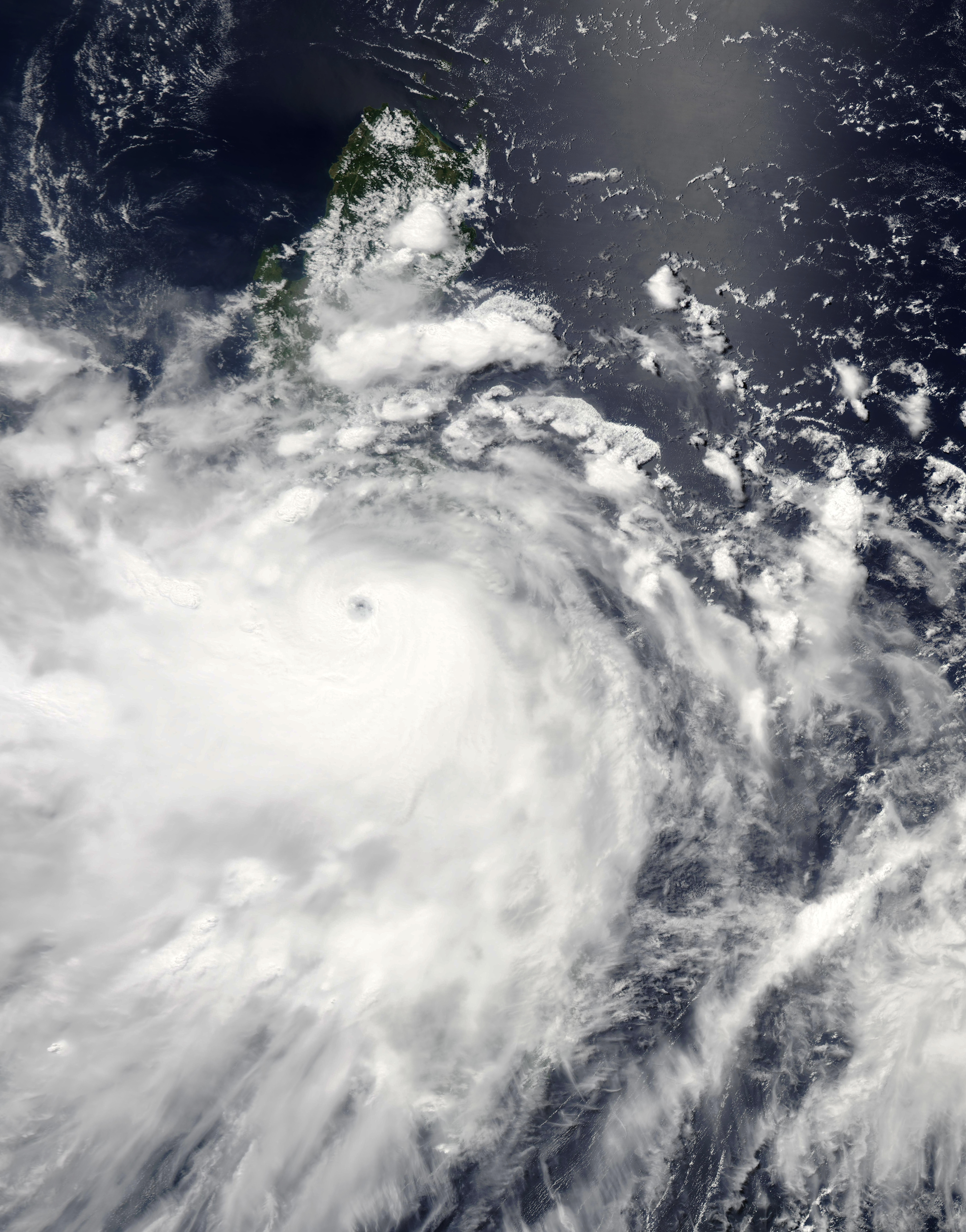 Typhoon Fengshen (07W) over the Philippines